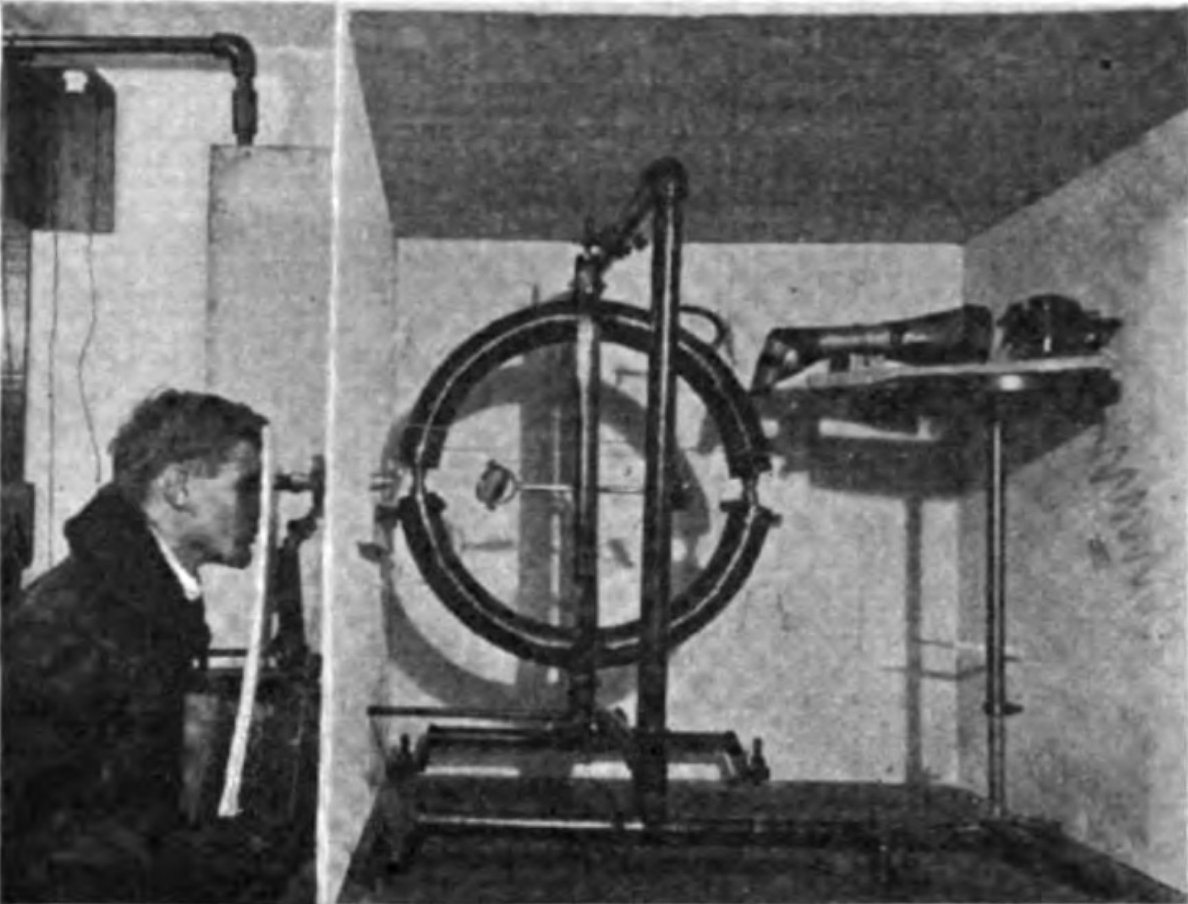 Compton generator:Watching the earth revolve. The apparatus is in a constant temperature room just above freezing point to avoid convection currents in the water.